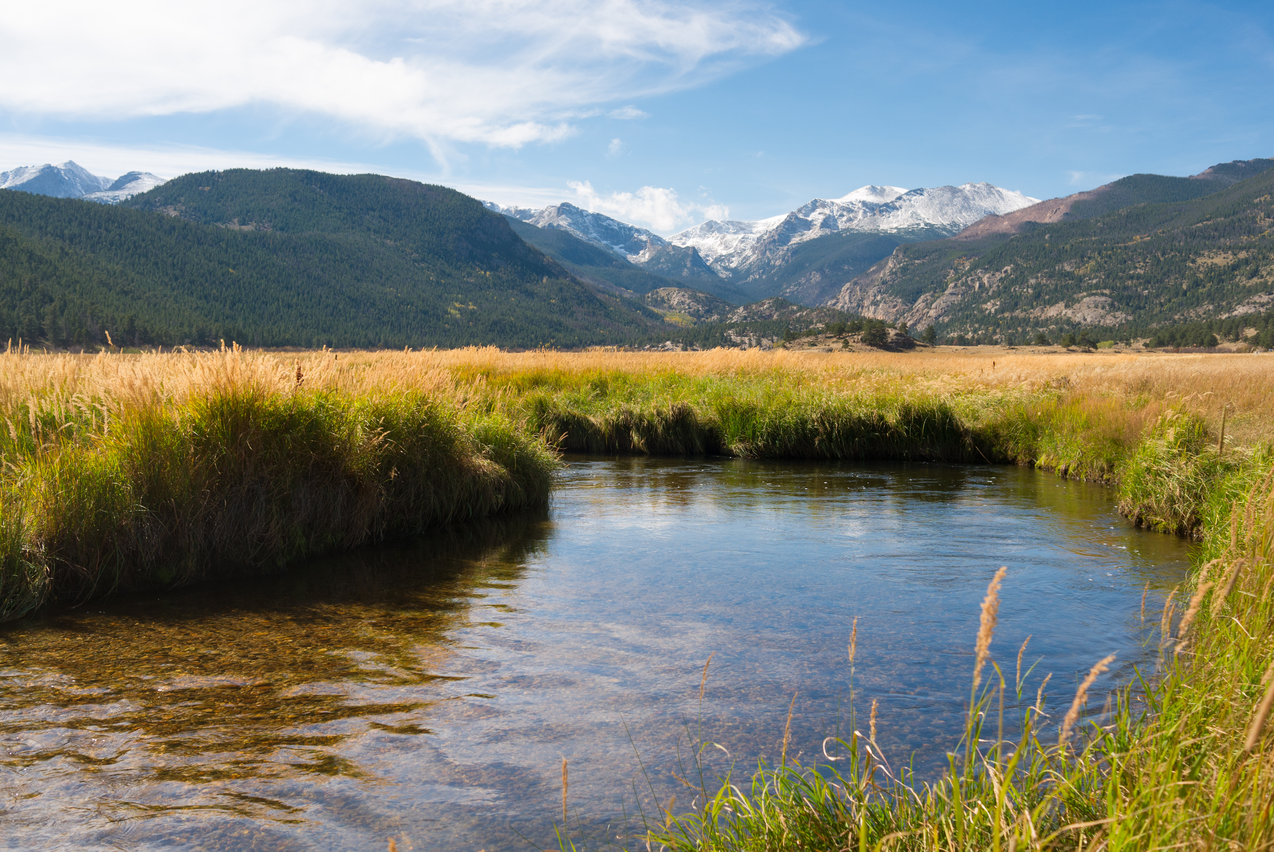 Moraine Park Valley in Rocky Mountain National Park, Colorado.